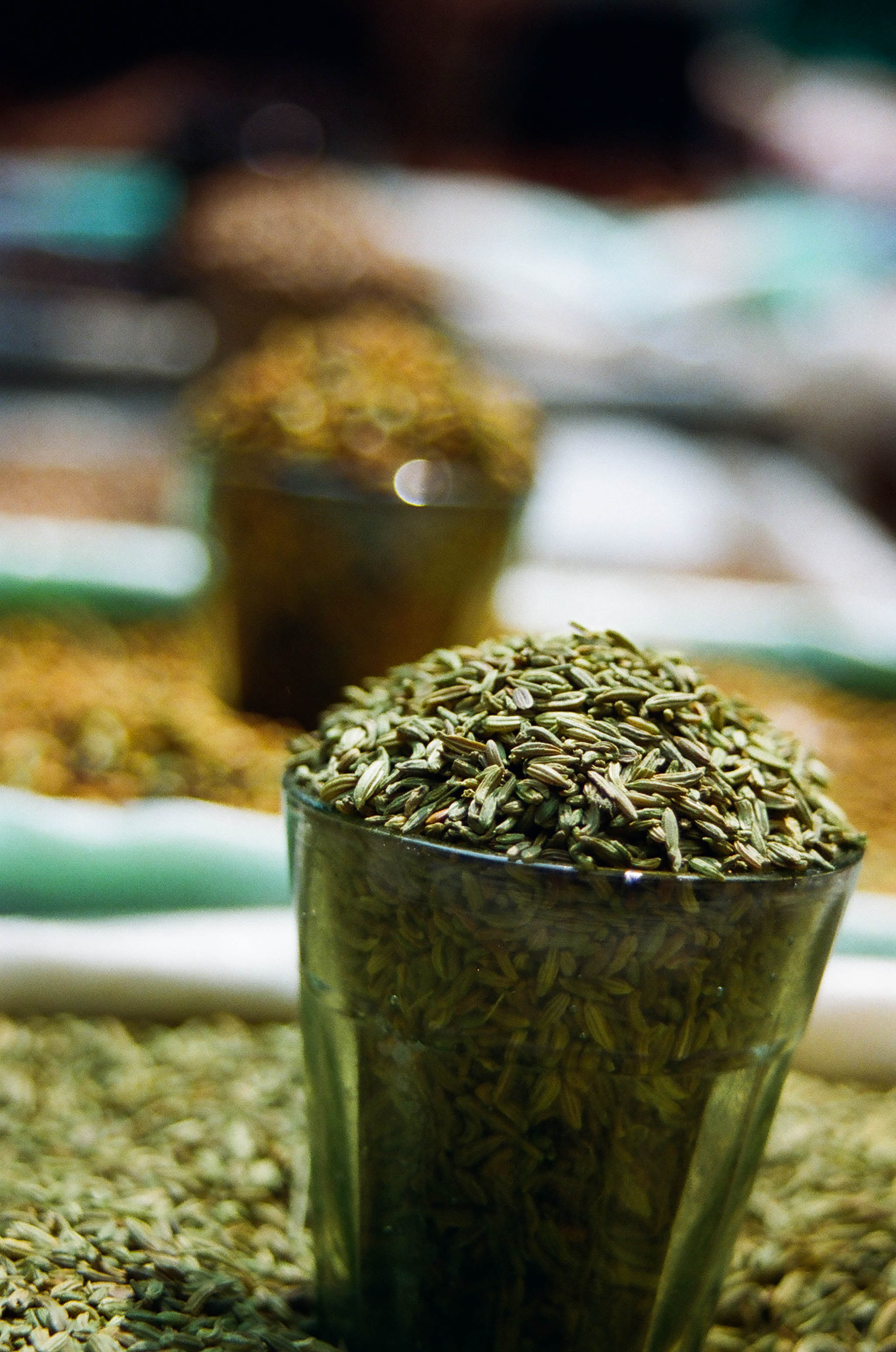 Mmm I miss these mints.